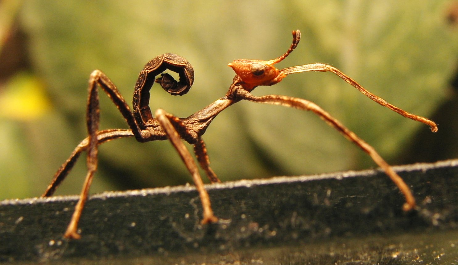 First instar of Extatosoma tiaratum, mimicking an ant.